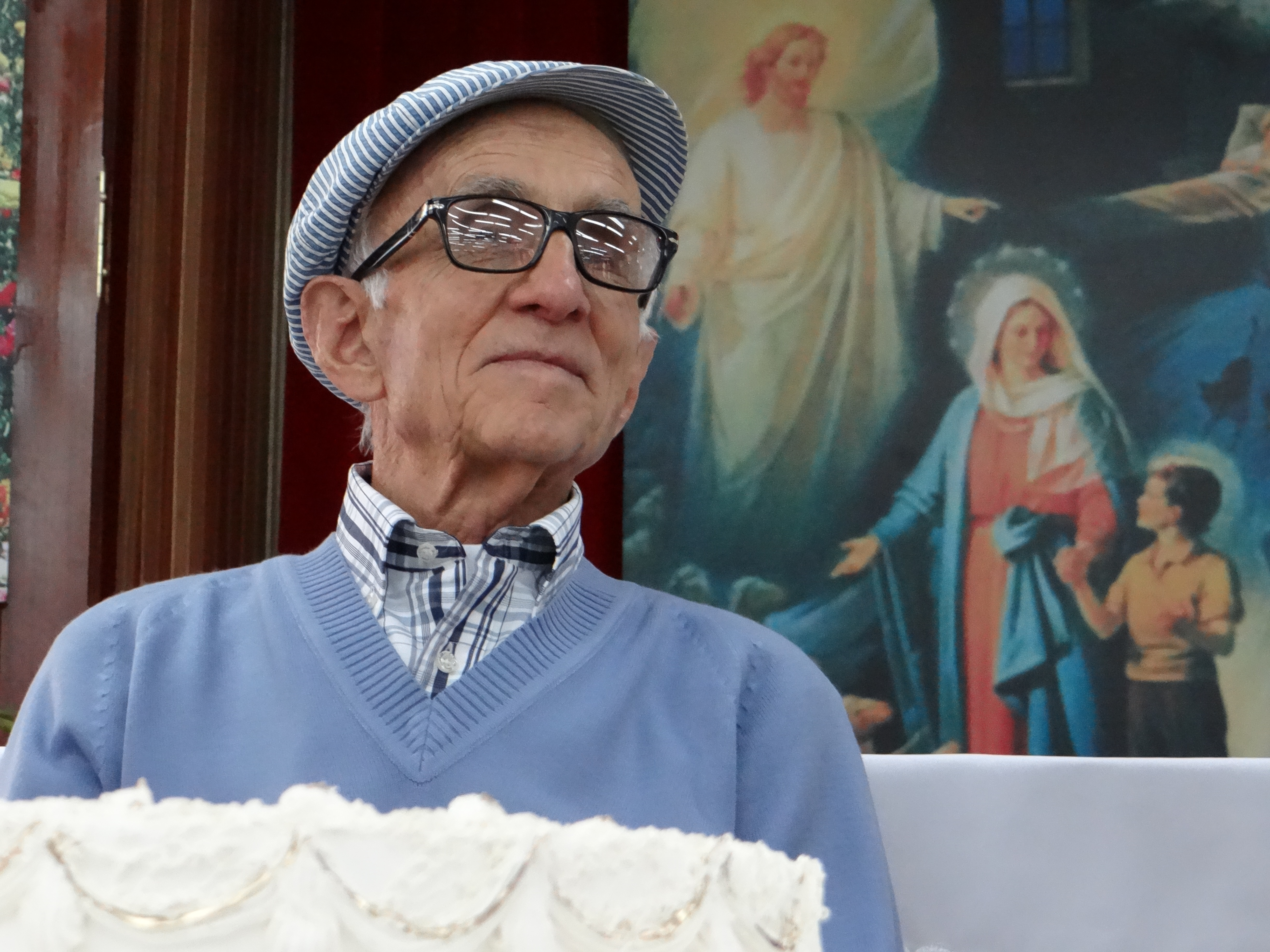 Fotografia de su cumpleaños # 83